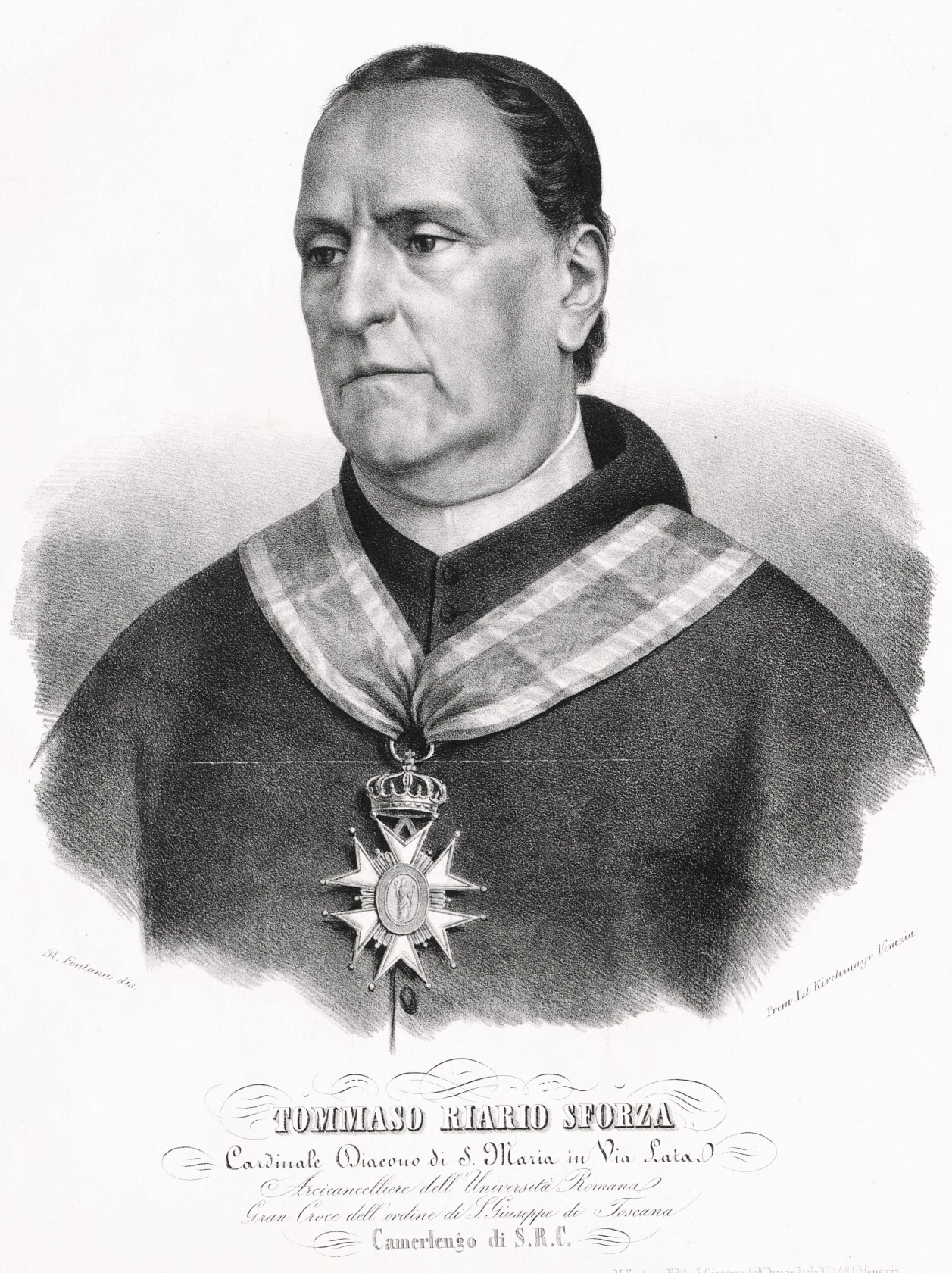 Tommaso Kardinal Riario Sforza (1782-1857)